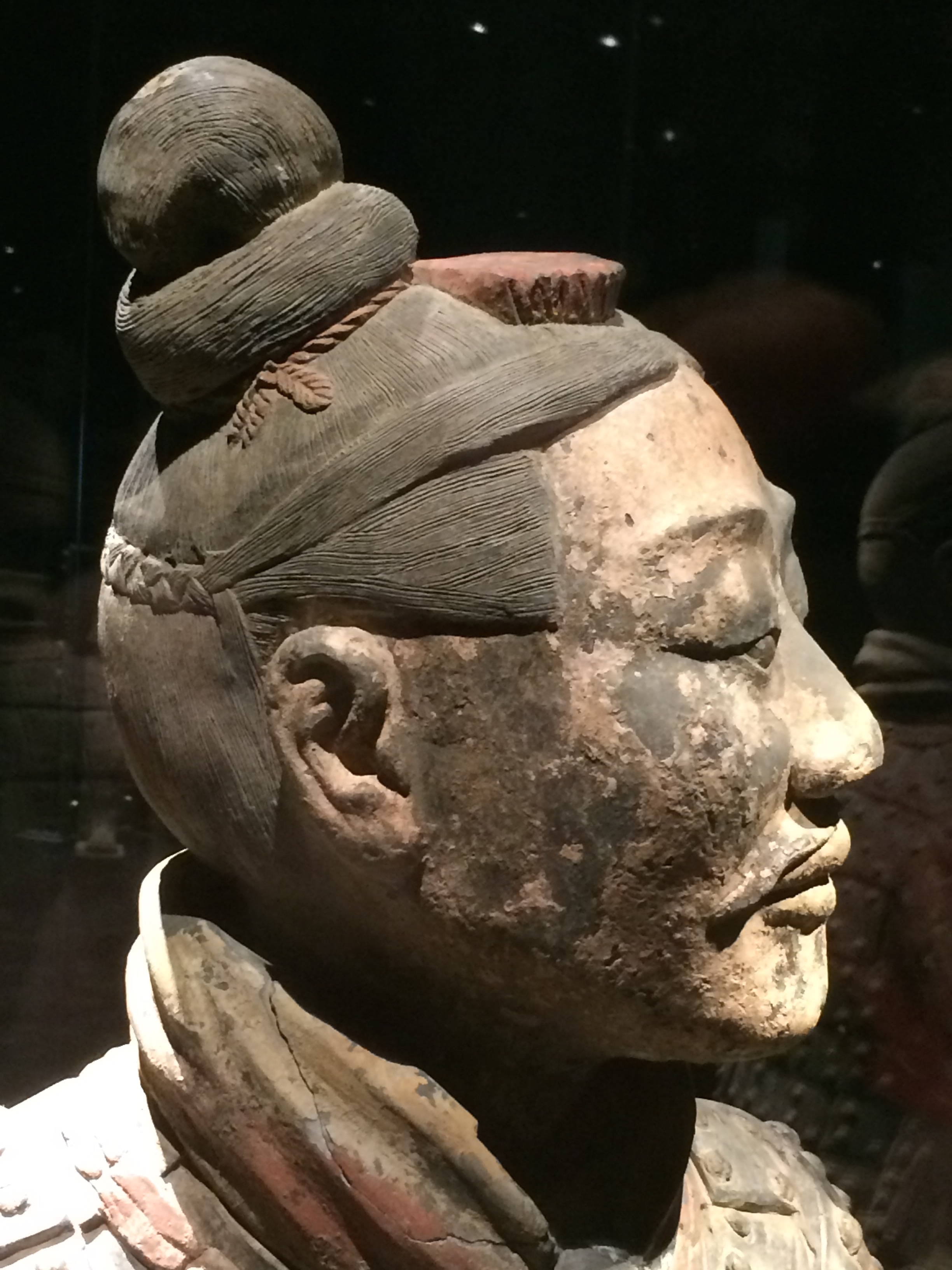 An archer of the terracotta army